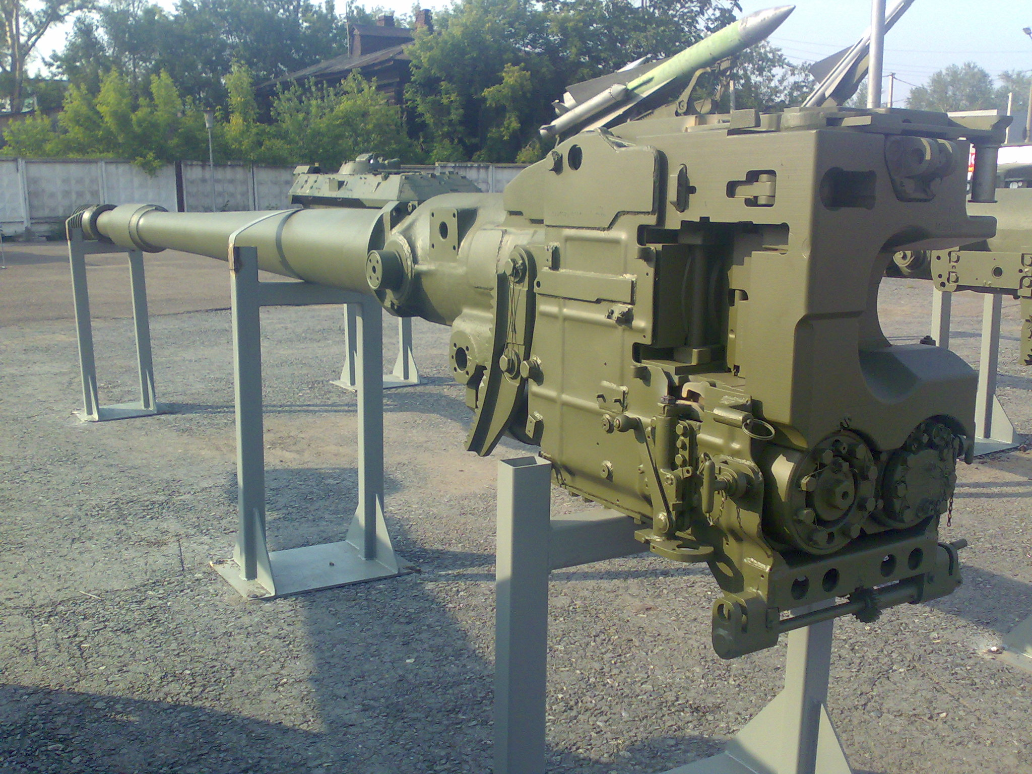 122-mm 2A17 heavy tank gun. Motovilikha Plants museum in Perm. Russia.